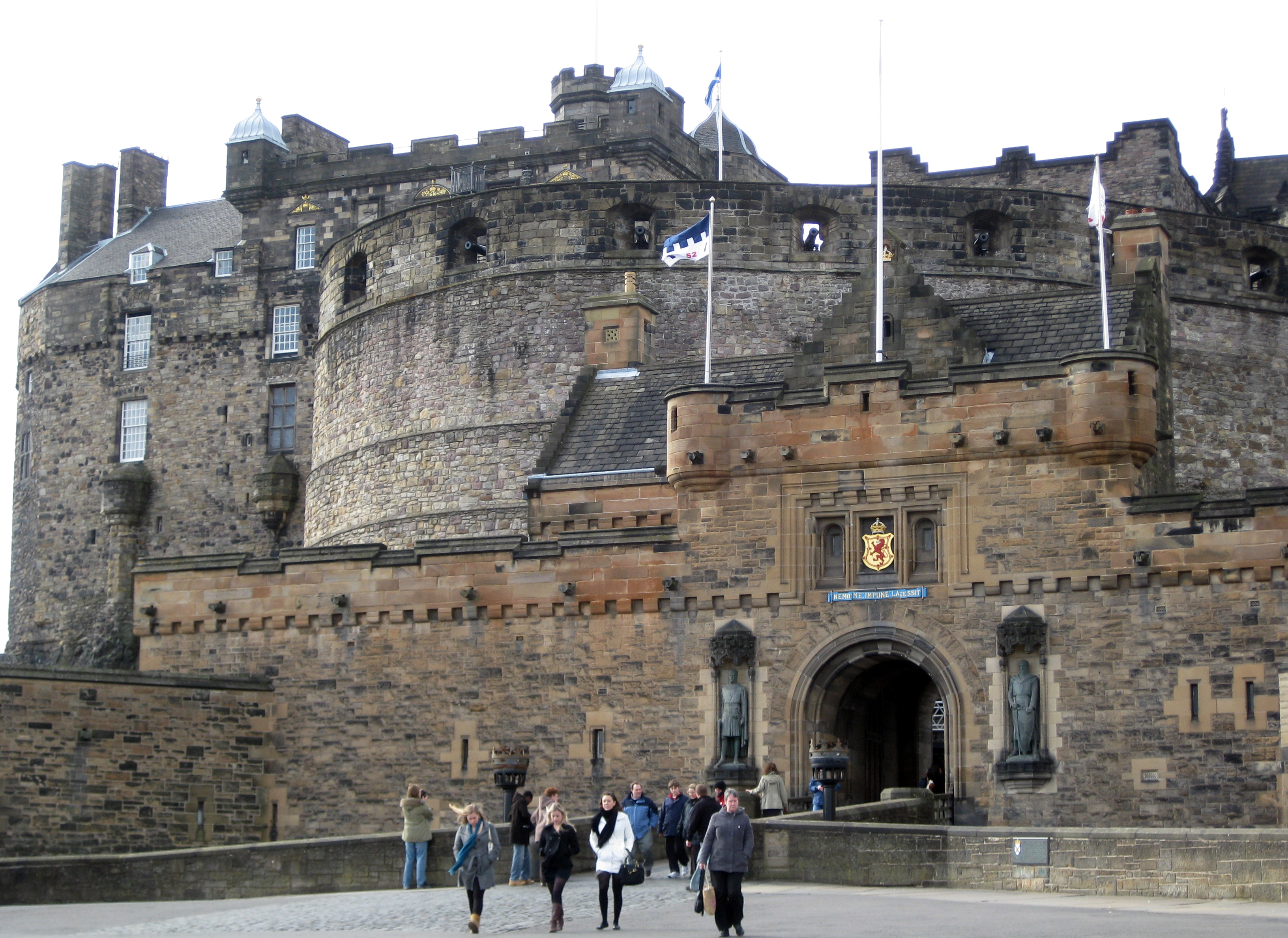 Edinburgh's castle